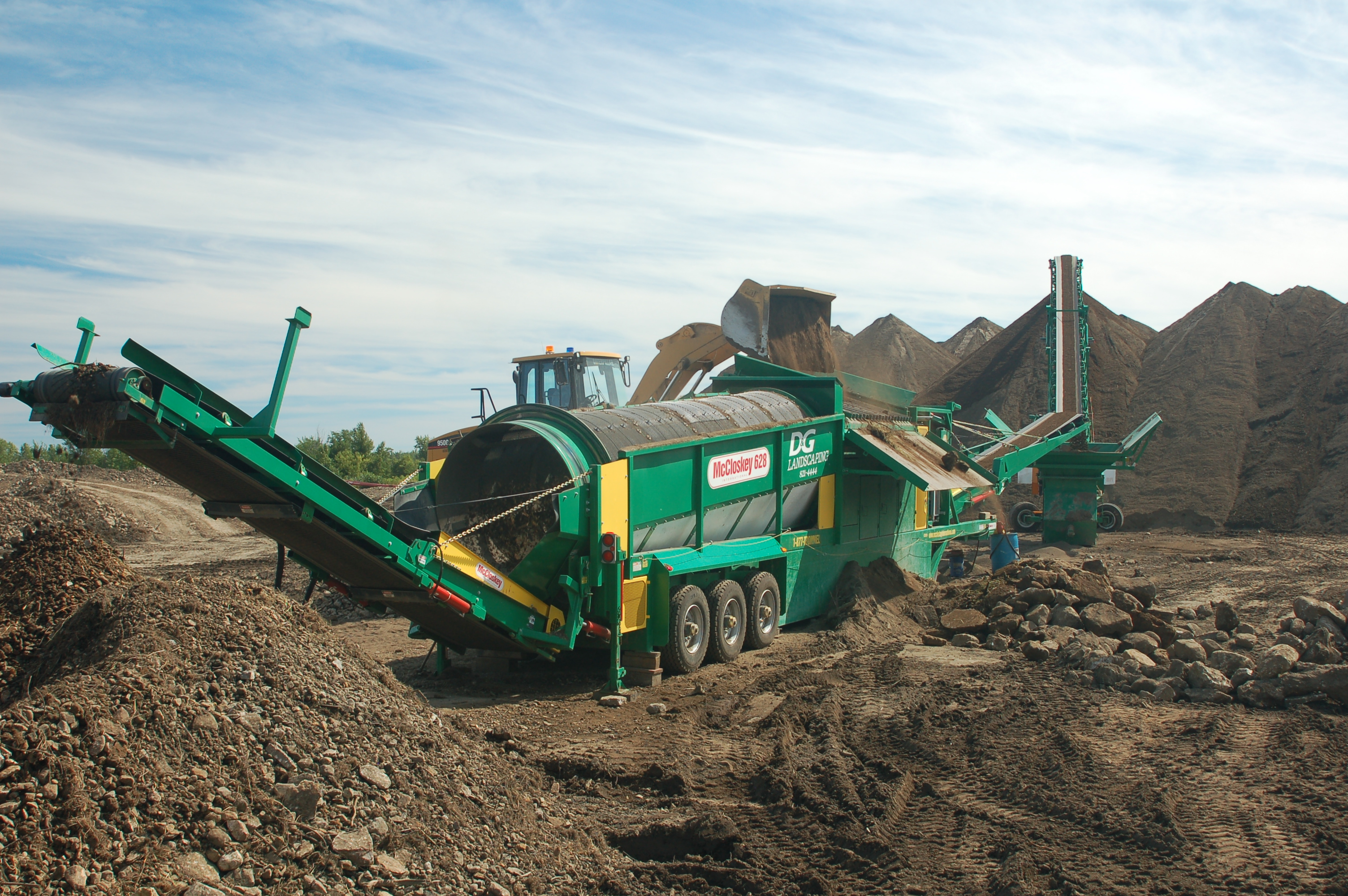 McCloskey 628 Portable Trommel producing cleaned rock and screened topsoil